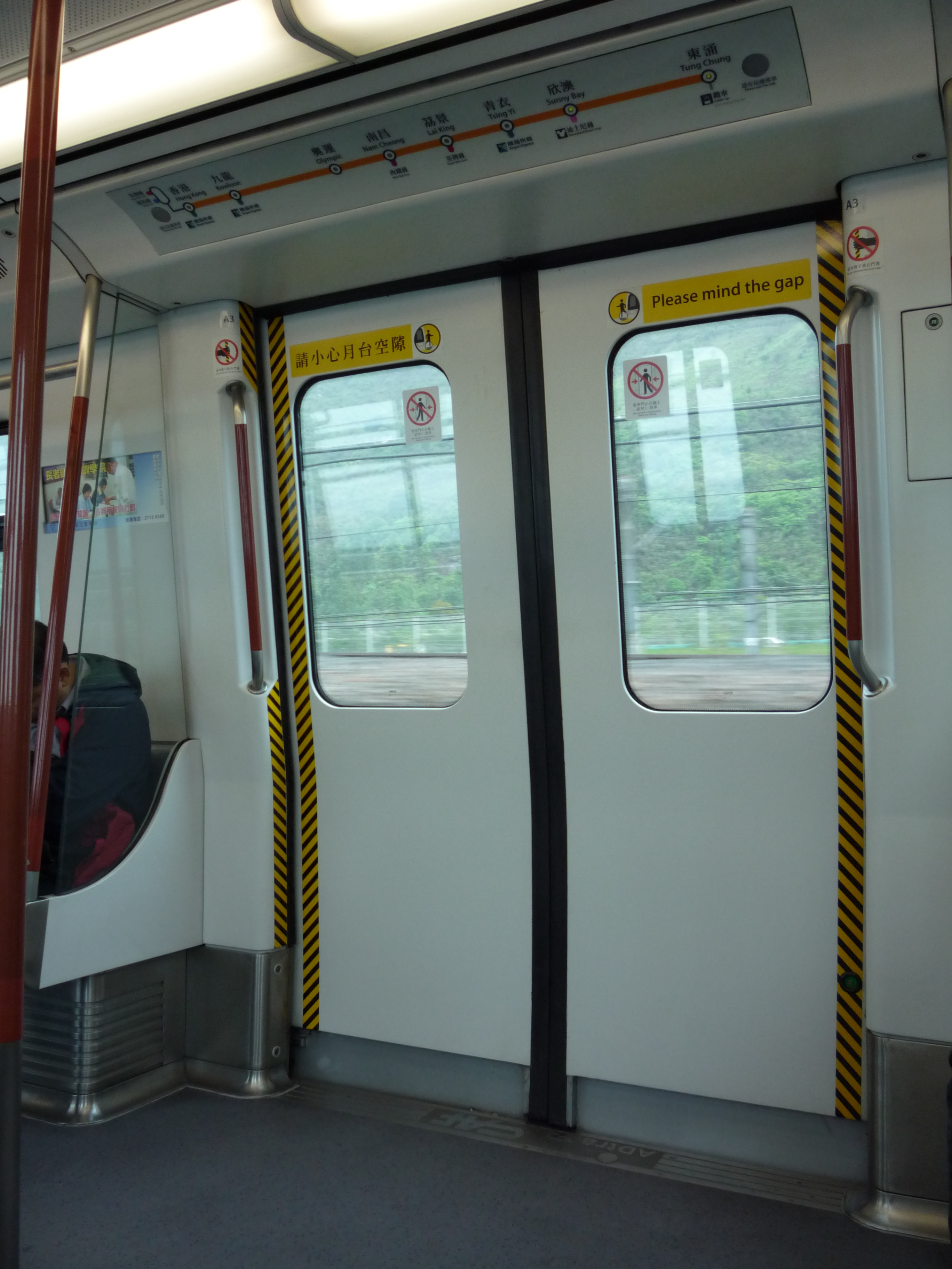 The Train door of MTR Adtranz-CAF Train